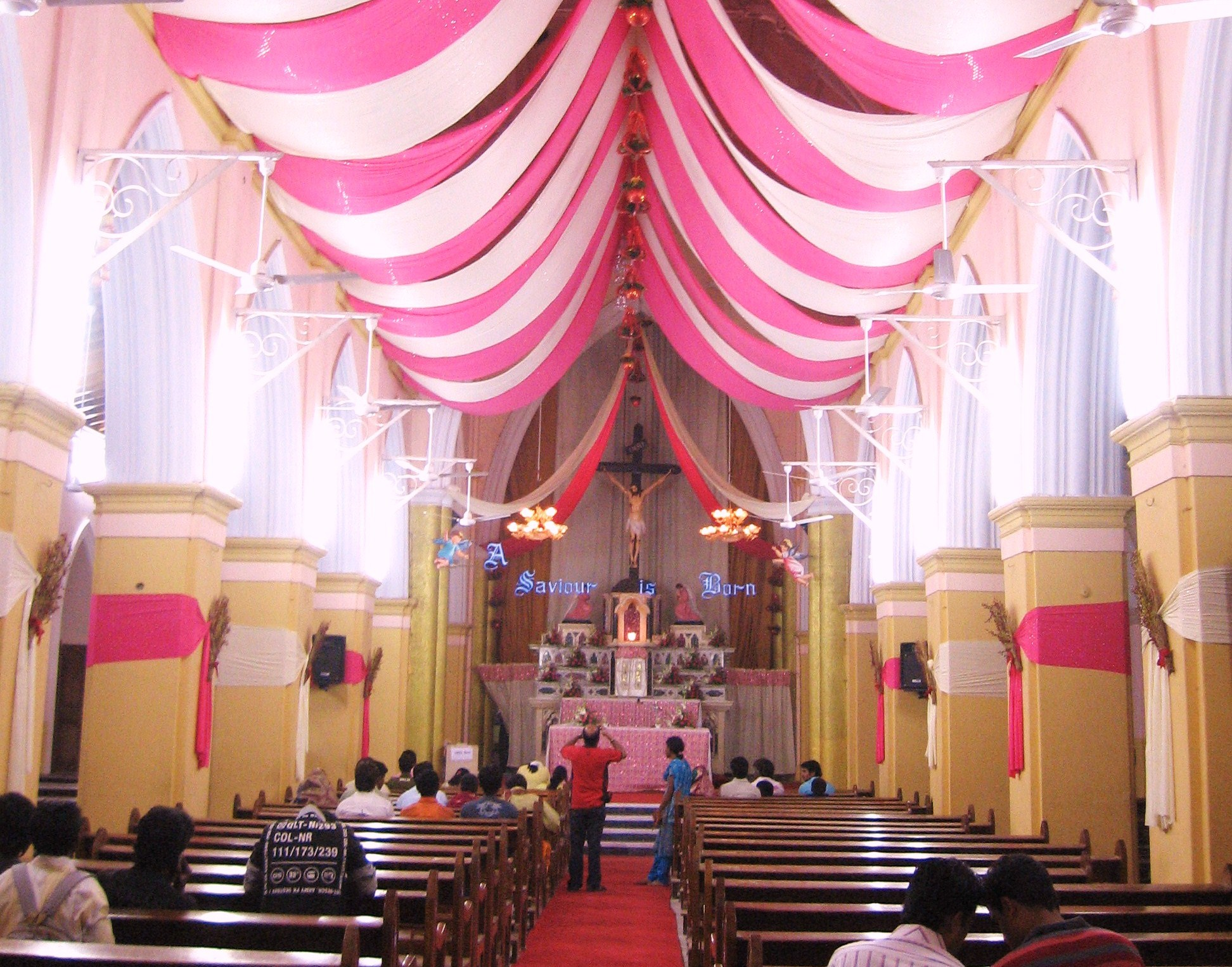 own work